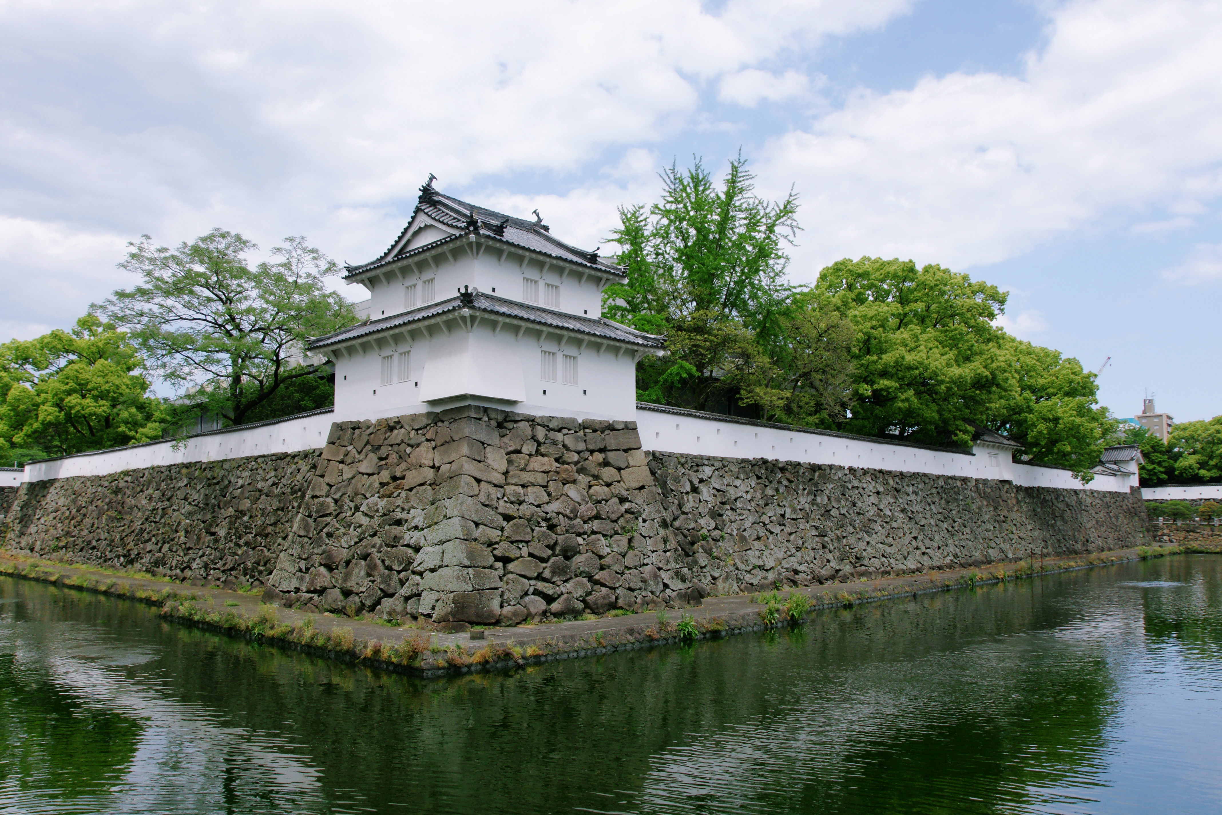 Funai Castle in Oita, Oita prefecture, Japan